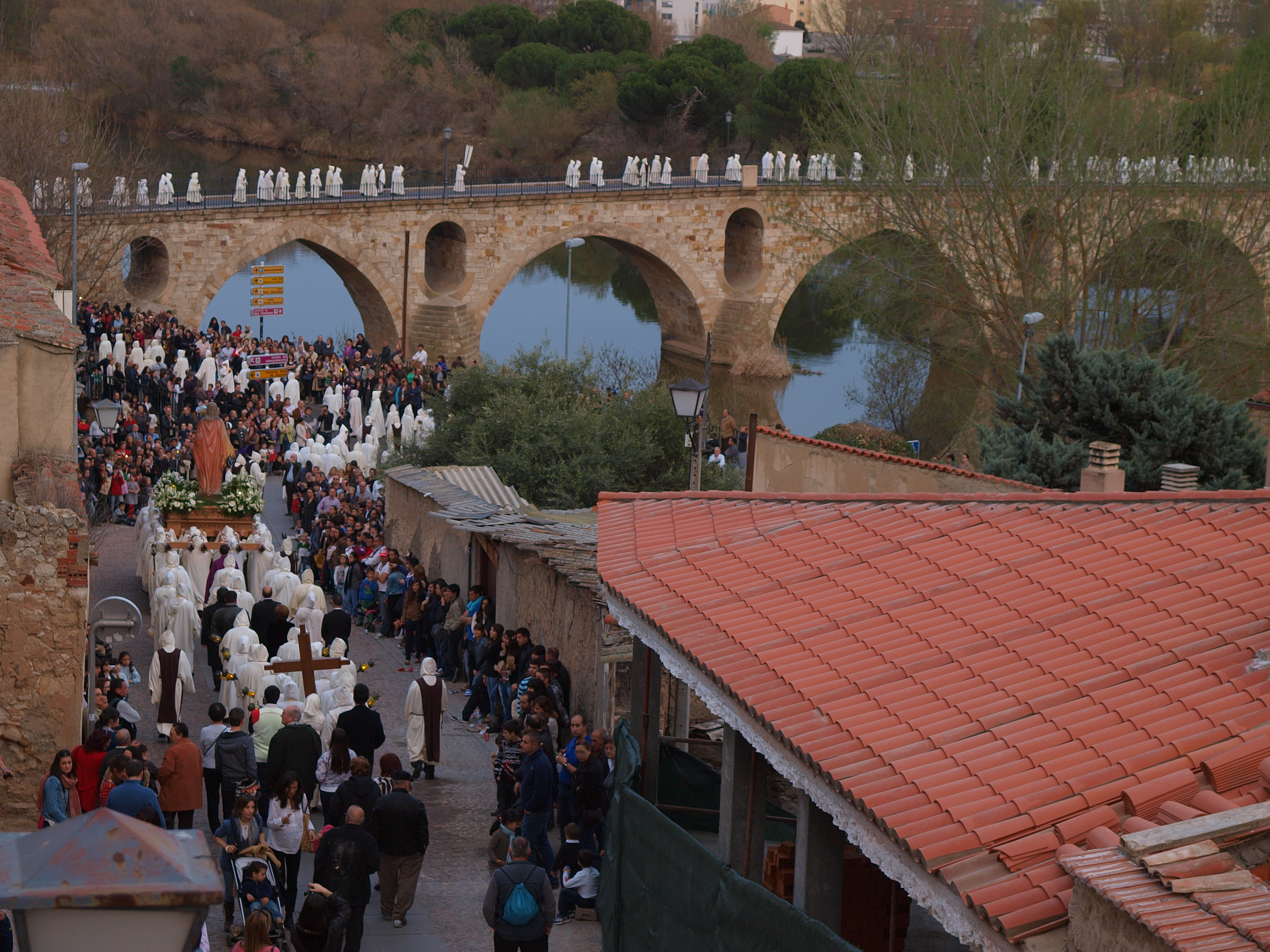 Procesion of the Hermandad Penitencial de Nuestro Señor Jesús Luz y Vida (Penitent Brotherhood of Our Lord Jesus Light and Life), marching trough the Stone Bridge to the cemetery for praying there; Holy Week in Zamora (Spain) 2012.